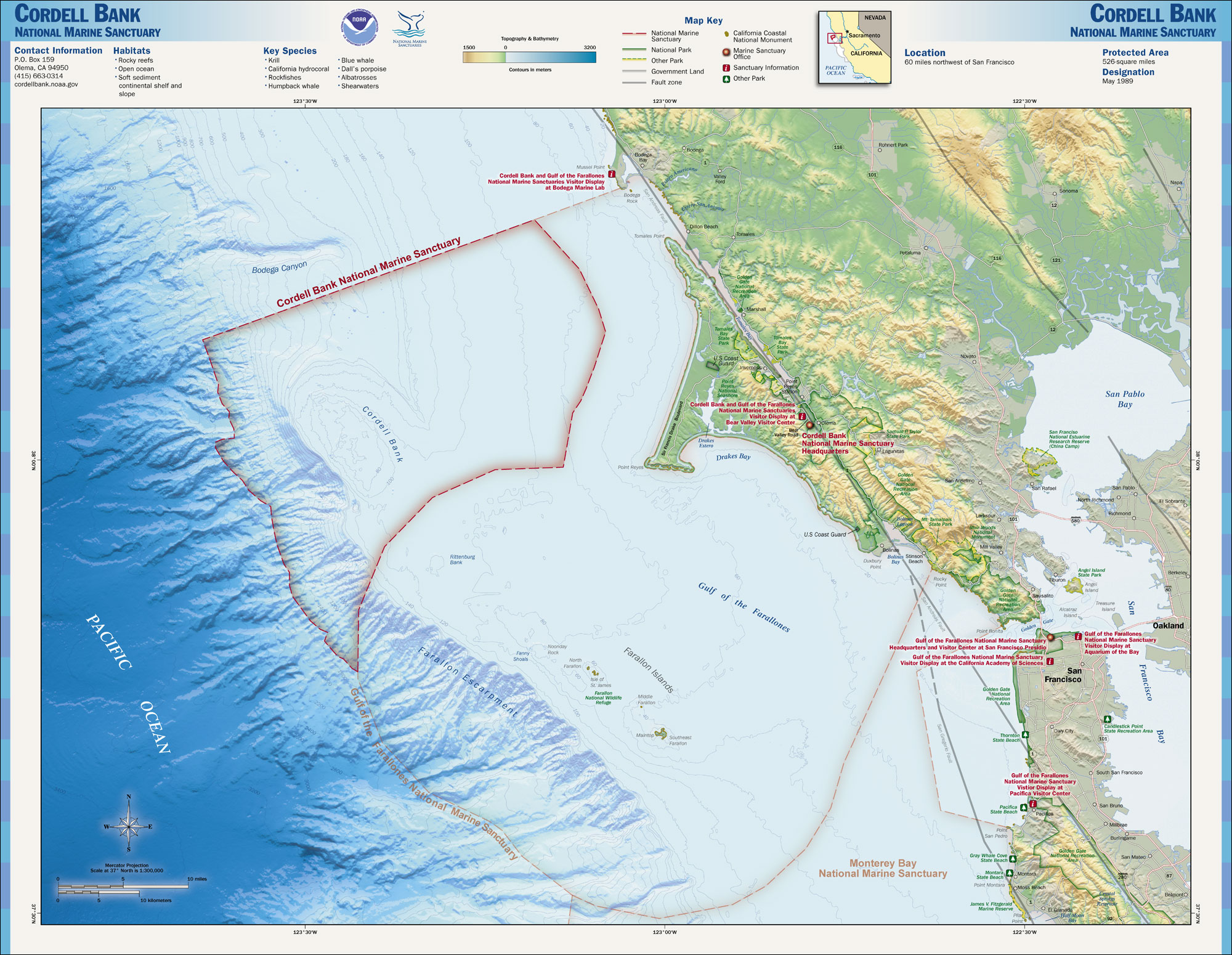 Map of the Cordell Bank National Marine Sanctuary — Northern California. Off the coast of Marin County, northwest of the Golden Gate and San Francisco Bay.